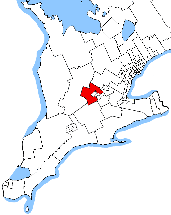 Map of the Kitchener—Conestoga electoral district. Based on Earl Andrew's maps, created by SimonP.